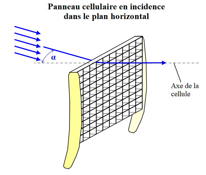 Grid fin in incidencel: the air flow passing through the cells is forced to adopt their direction. Here the cellular panel was placed in incidence by turning it in a horizontal plane. The wind, also horizontal, enters the cells with a biased direction. It turns out that the new orientation of the air flow takes place in the cells over a very short distance (this is why there is absolutely no need for the cells to be longer).